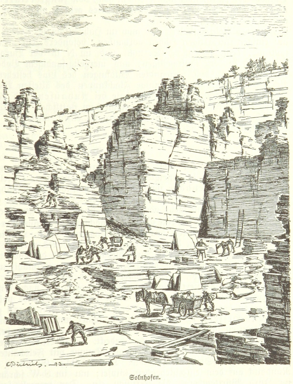 Image taken from: Title: "Geographisch-historisches Handbuch von Bayern" Author: GOETZ, Wilhelm - of Munich Shelfmark: "British Library HMNTS 10256.h.14." Volume: 02 Page: 287 Place of Publishing: München Date of Publishing: 1895 Issuance: monographic Identifier: 001449415 Explore: Find this item in the British Library catalogue, 'Explore'. Download the PDF for this book (volume: 02) Image found on book scan 287 (NB not necessarily a page number) Download the OCR-derived text for this volume: (plain text) or (json) Click here to see all the illustrations in this book and click here to browse other illustrations published in books in the same year. Order a higher quality version from here.